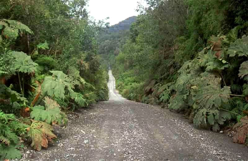 Gigantic rhubarb plants along the Carretera austral between Caleta Gonzalo and Chaitén